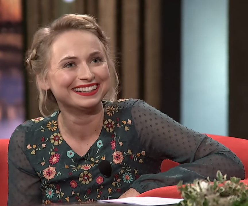 Shopaholic Nicol in Show Jana Krause (2017)